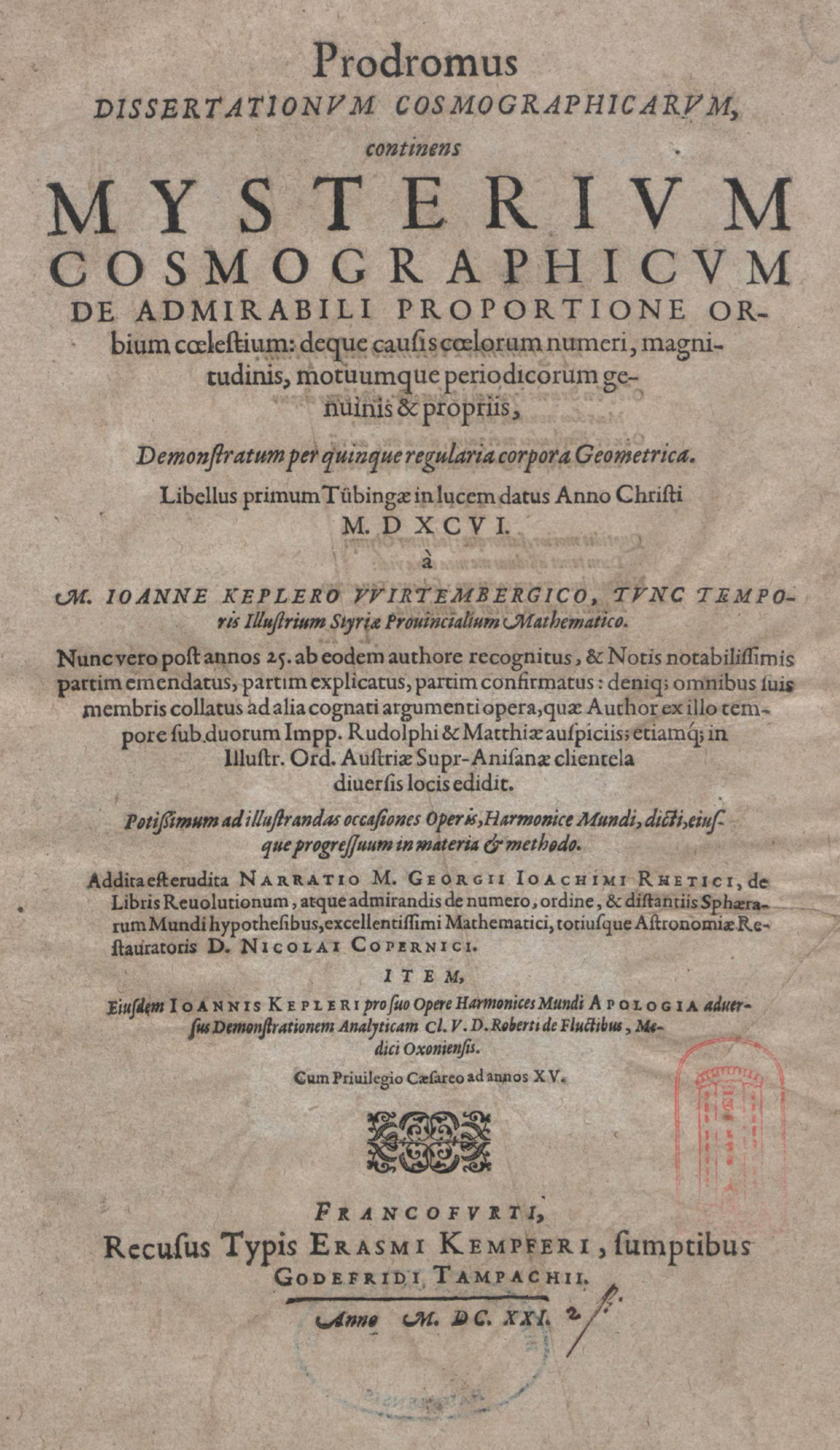 Front page of Mysterium Cosmographicum (1600)